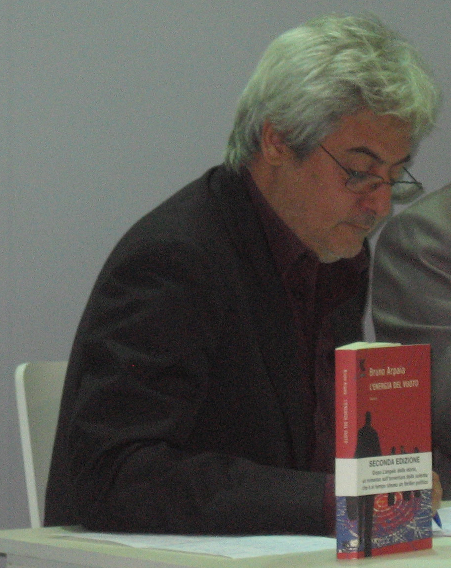 Bruno Arpaia. Cropped from File:Italians 4 (Moscow International Book Fair).jpg.